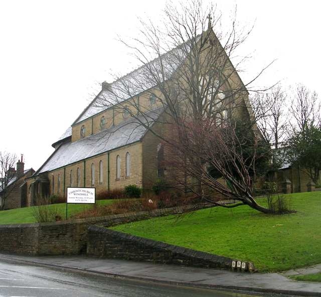 Christ Church parish church, Leeds Road, Windhill, West Yorkshire, seen from the west